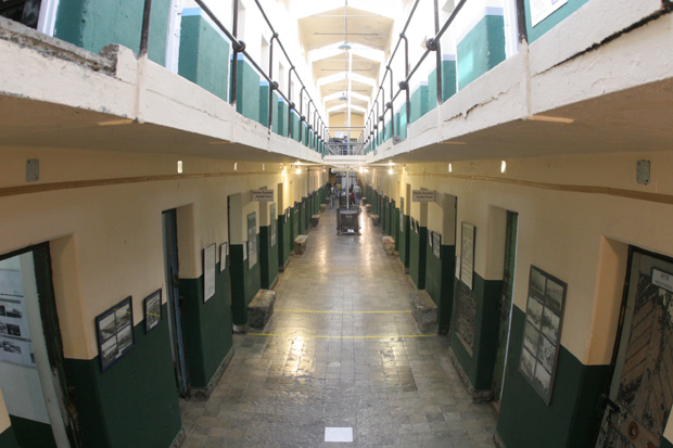 Pabellón 4. Museo del Presidio